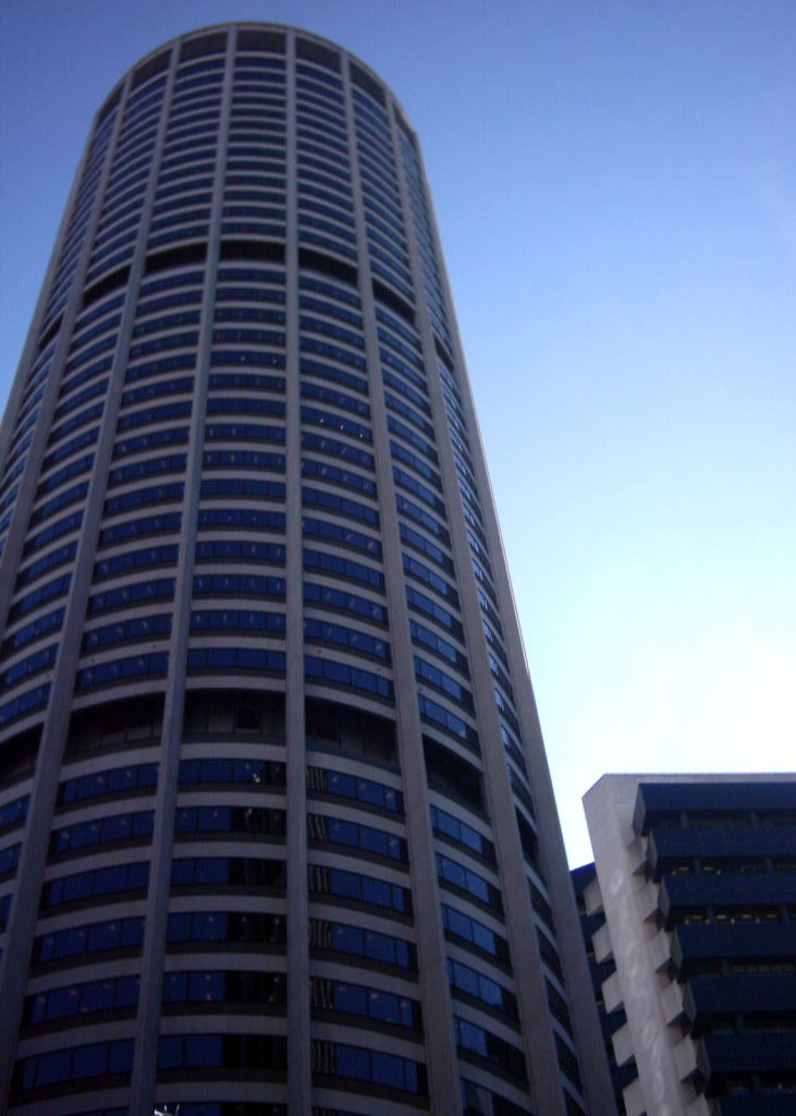 Australia Square, Sydney's first true Skyscraper